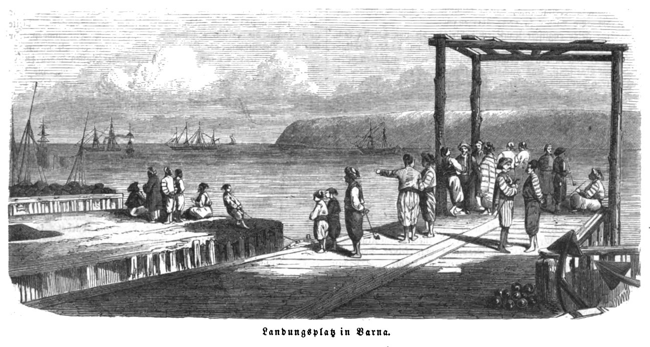 caption: "Landungsplatz in Varna."